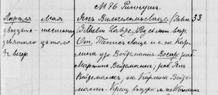 Photo of Record of Dunamunde Parish Church, in a book from 1896 to 1904. Jahn Wilhelm Lahze, born April 29, 1904 in Rīnūži. Father Tenis Lahze, mother Karline Lahze, born Veidemann. Godfather Martin Veidemann, godfather Jan Veidemann, godmother Karline Veidemann.